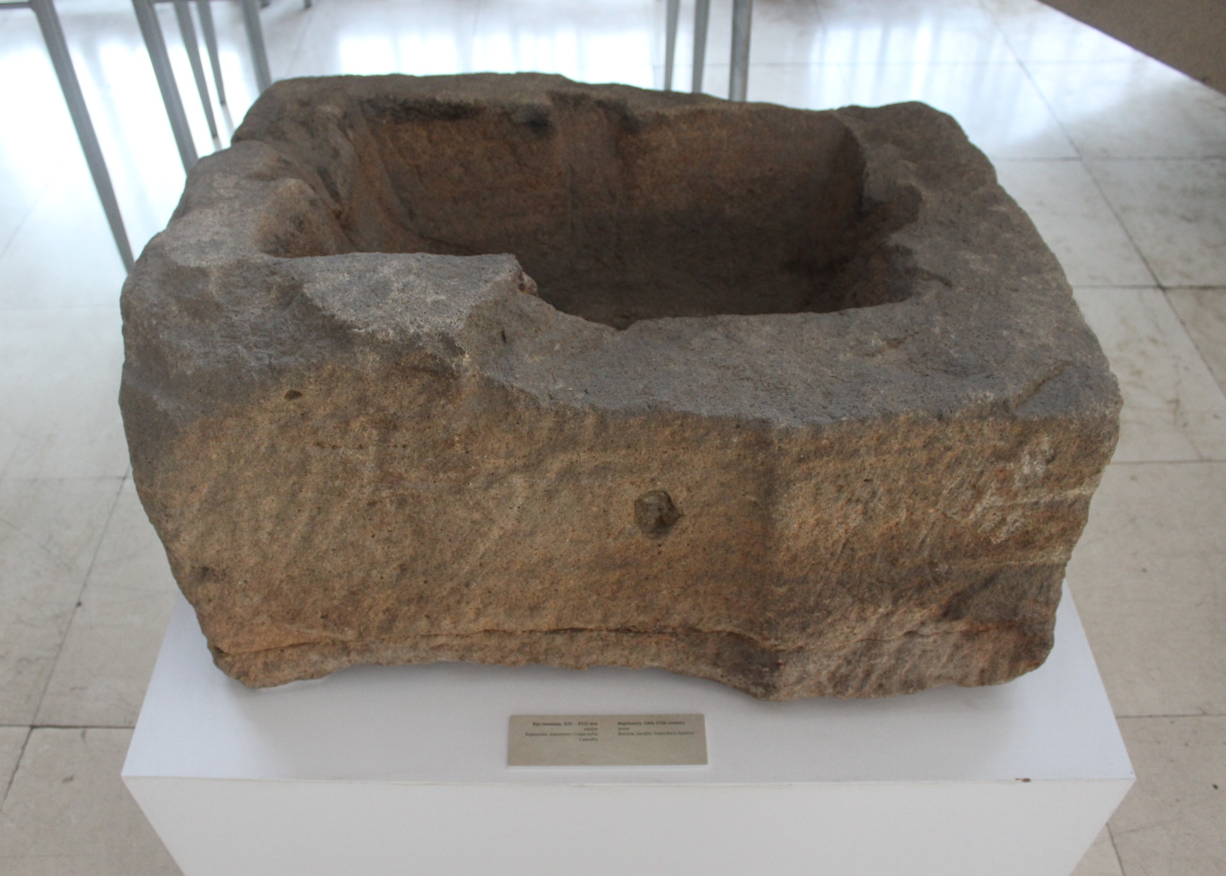 Baptistery, 14th – 17th century. Stone, Boisina, locality Stara kuca Spasica. Srpski (latinica): Krstionica, XIV –XVII vek. Kamen, Bojišina, lokalitet Stara kuća Spasića.